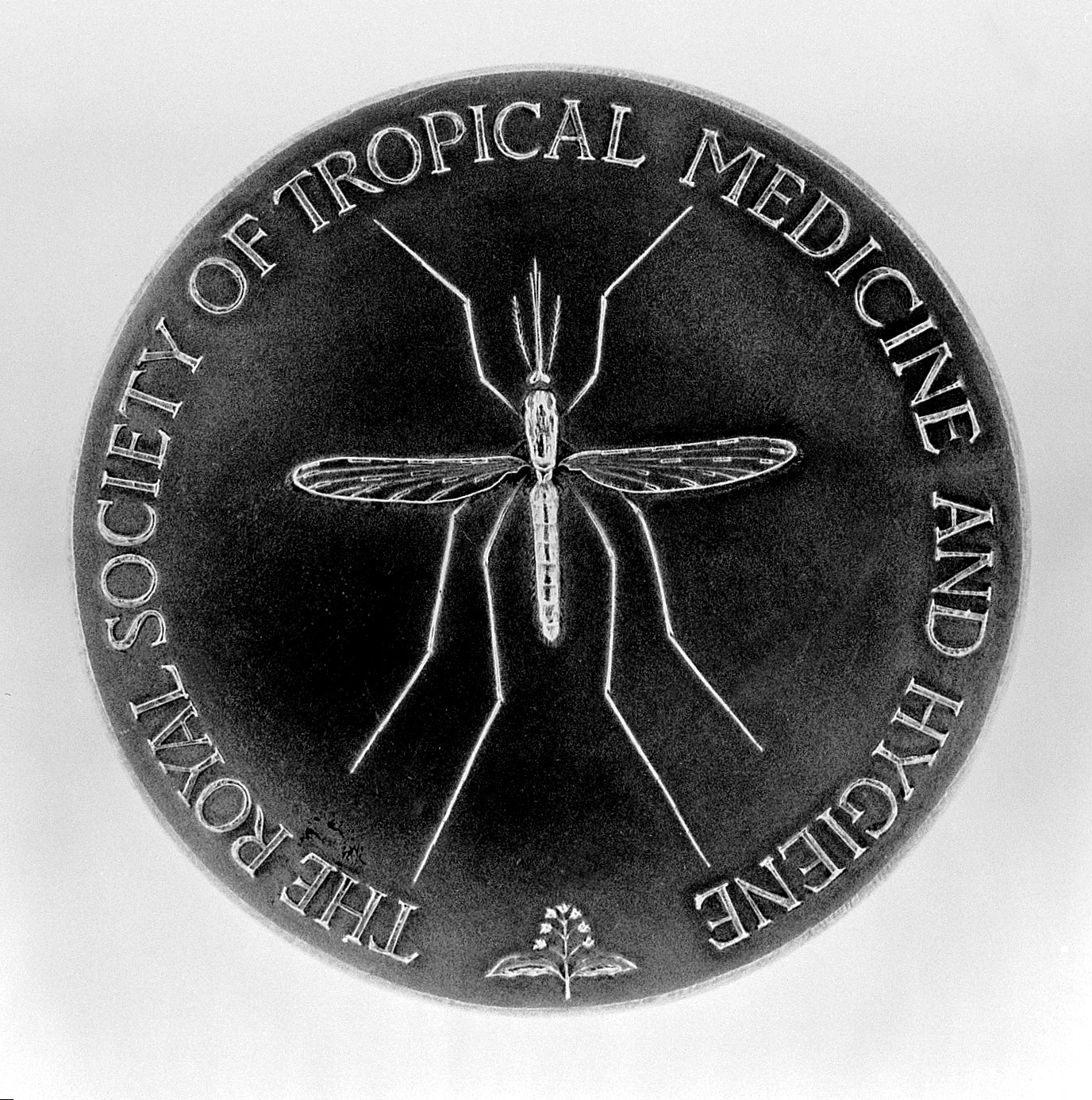 Medals: The Chalmers Memorial Medal, reverse side Archives & Manuscripts Keywords: chalmers medal; tropical medicine and hygiene